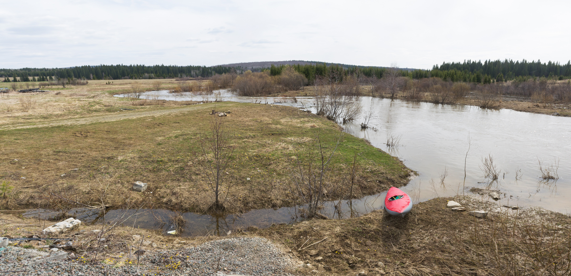 Река Серебряная, приток Чусовой